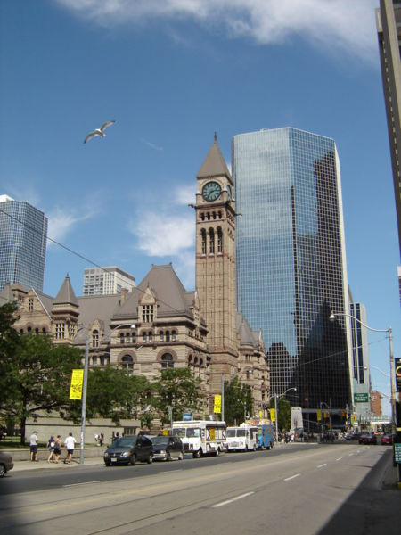 created by DonaldoKun